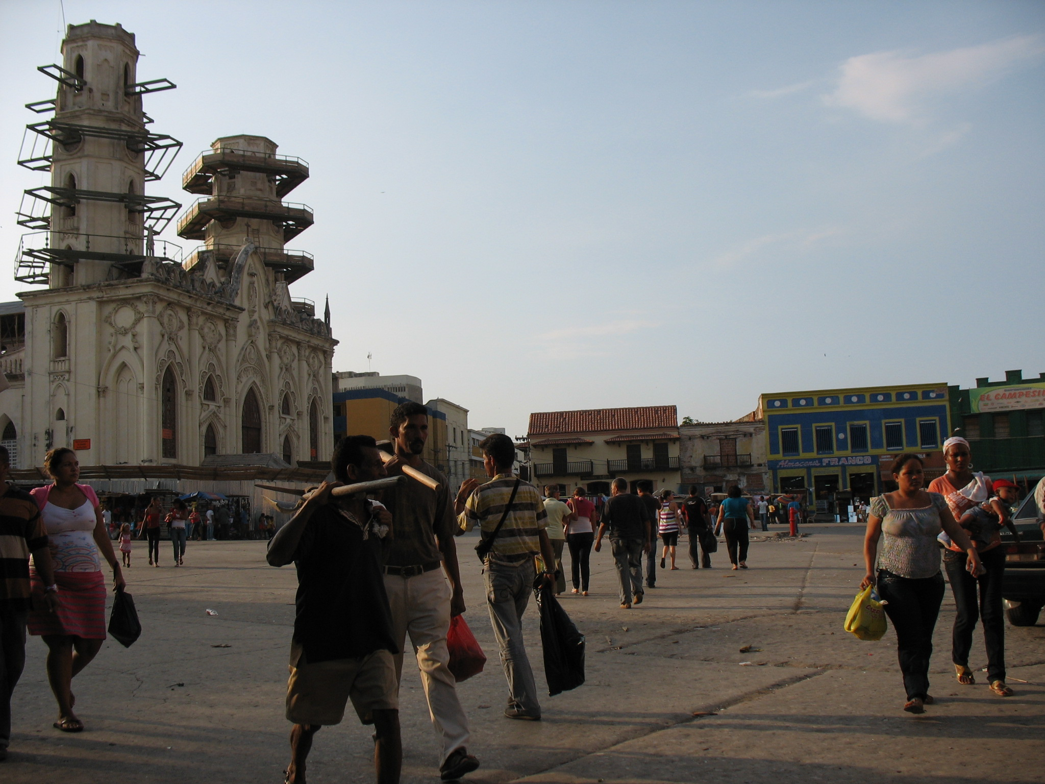 Barranquilla San Nicolás Square